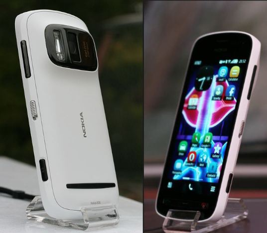 For Nokia 808 front page